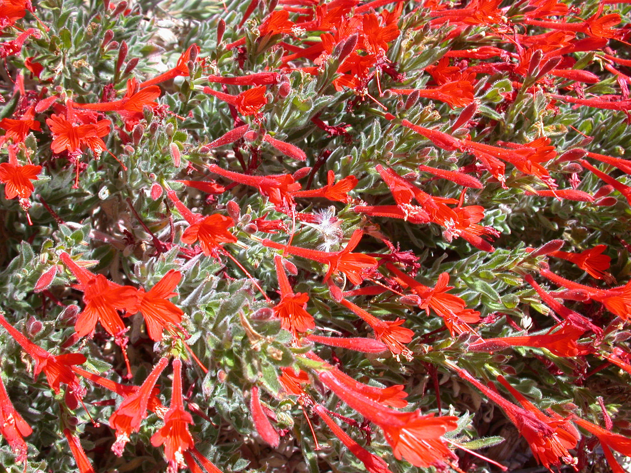 California fuschia, Epilobium canum [(Greene) Raven], subsp. latifolium [(Hook.) Raven], cv. 'Everett's Choice'. Taken in Scotts Valley,Santa Cruz County, California.